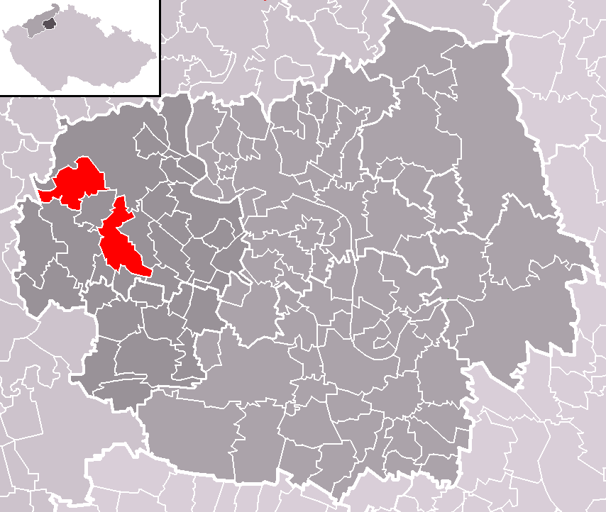 Location of Třebenice municipality within Litoměřice District and administrative area of Lovosice as a Municipality with Extended Competence. Třebenice consists of two territories separated by municipality of Vlastislav.